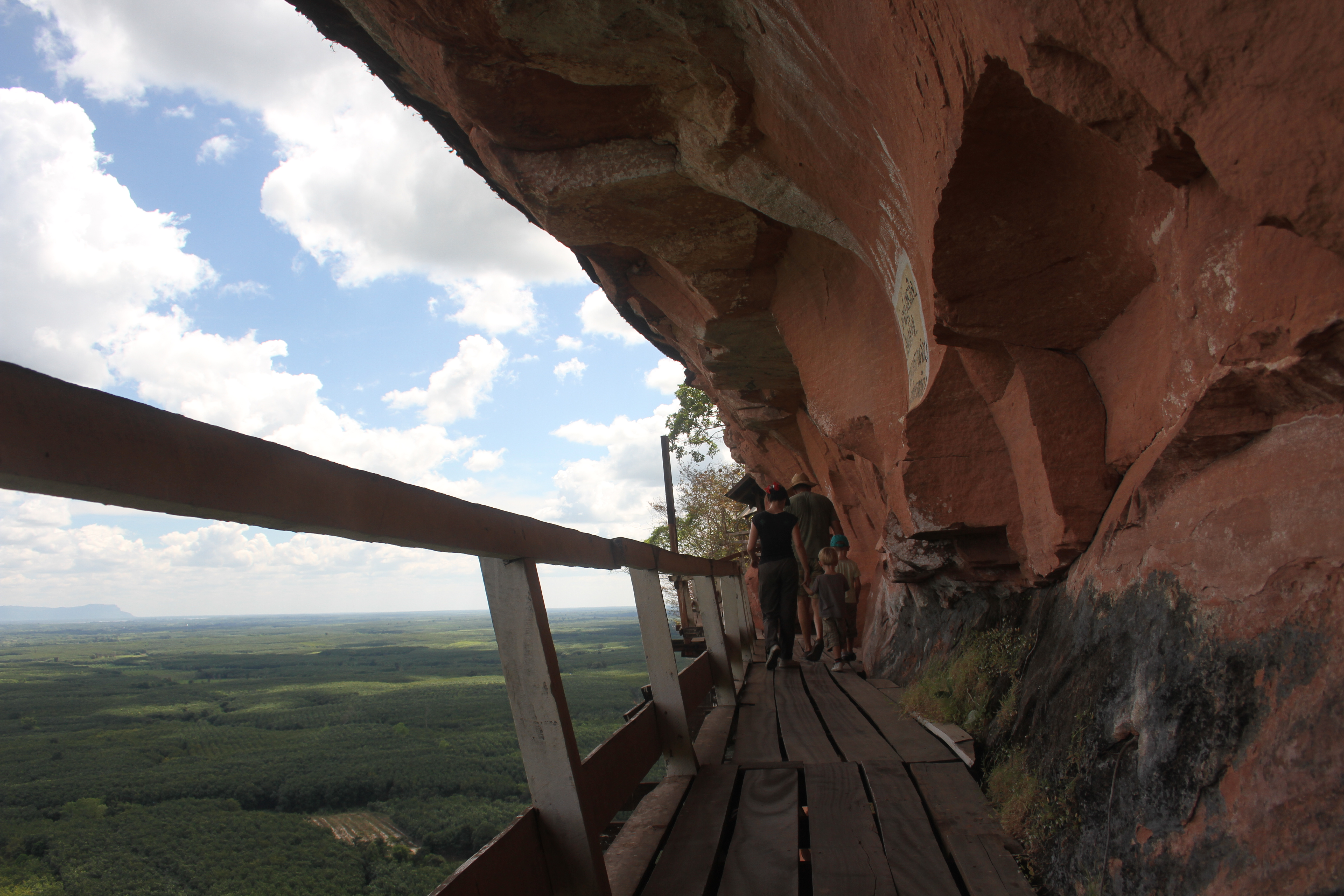 the last wood catwalk on the top of the rock, north face